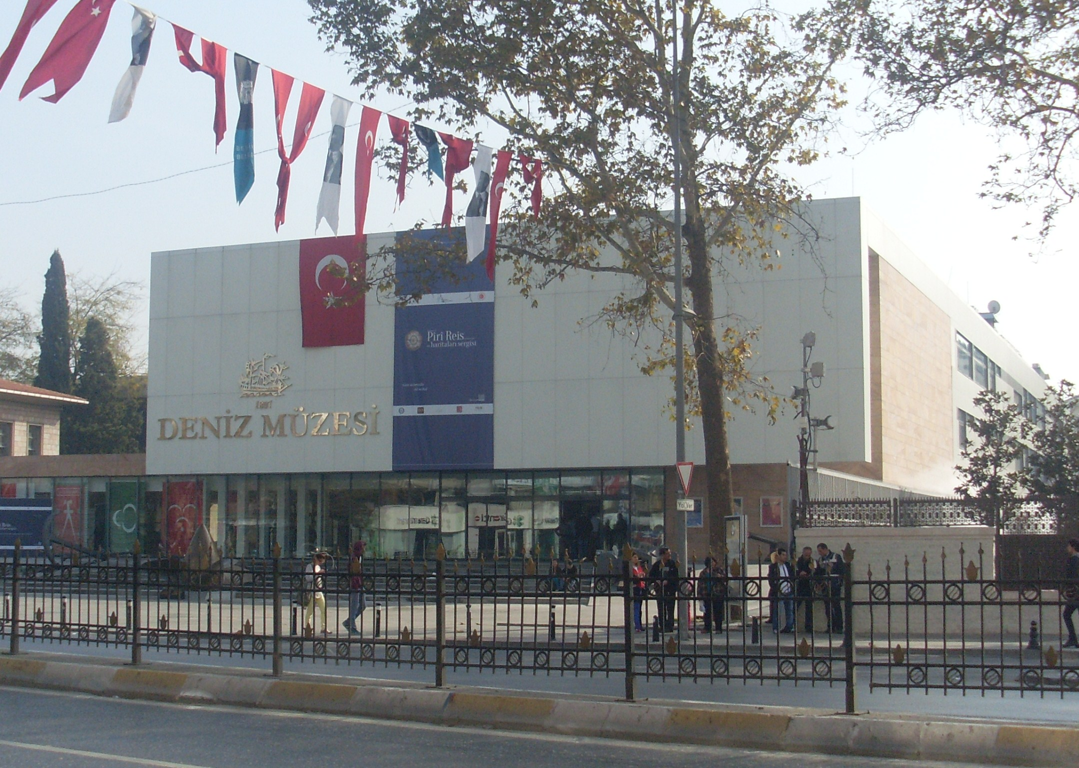 Istanbul Naval Museum new building Oct 2013